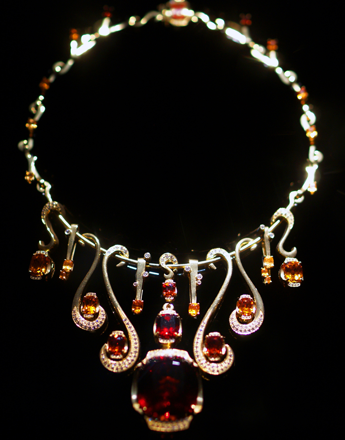 Garnet and Diamond necklace Designed and created by Ernesto Moreira Houston, TX 2006 22kt Yellow gold necklace with large deep red Malaya Garnet (99 carats) as center stone, (3.015 carats) of pave diamonds and (50.65 carats) of garnets varying from deep red to bright orange. Wikipedia Loves Art at the Houston Museum of Natural Science This photo of item # [1] at the Houston Museum of Natural Science was contributed under the team name "Assignment_Houston_One" as part of the Wikipedia Loves Art project in February 2009. Houston Museum of Natural Science The original photograph on Flickr was taken by sulla55—please add a comment to the original Flickr page whenever a use has been made on Wikipedia or another project. Project galleries on Flickr: this institution, this team